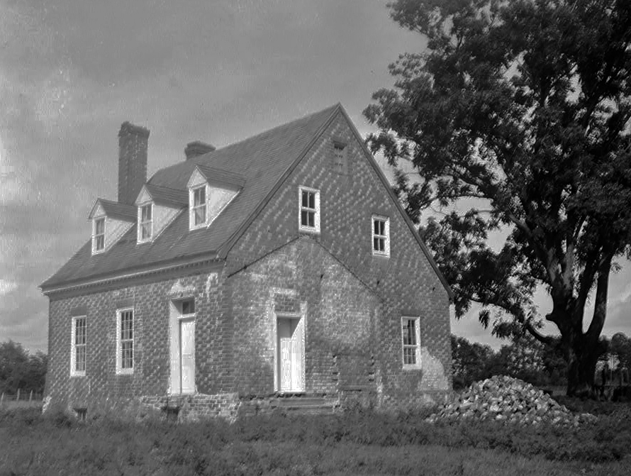 Somers House (destroyed by fire), Northampton County, Virginia, USA